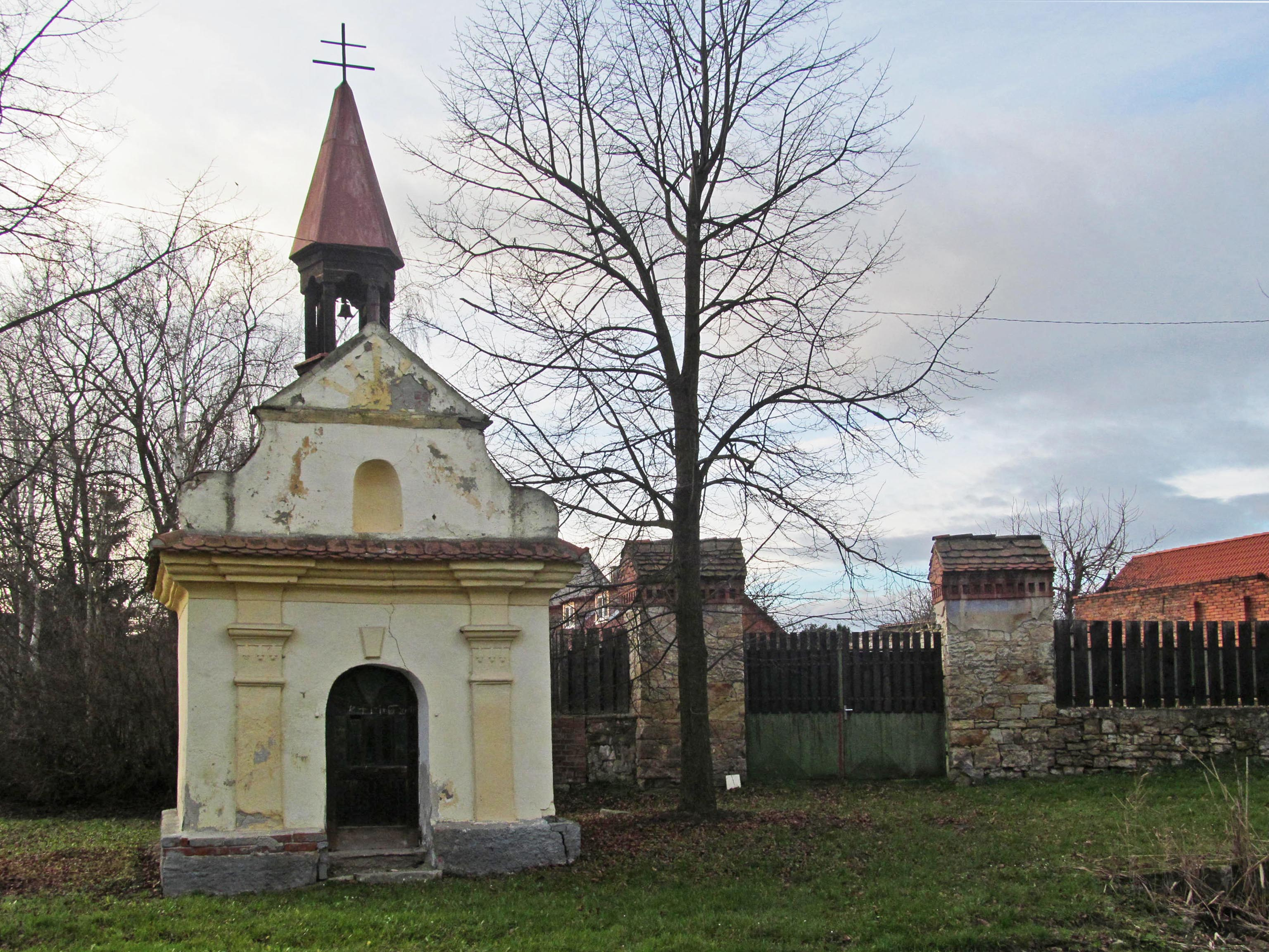 Chapel from 1822 in Drahomyšl